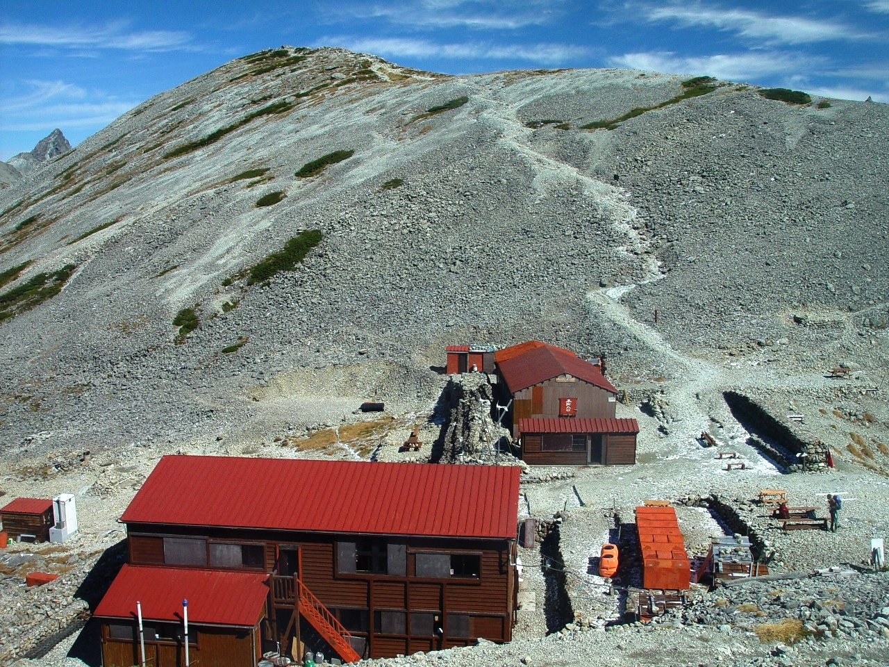 Minamidake and Hut in Mount Minami, Hida Mountains, Japan.